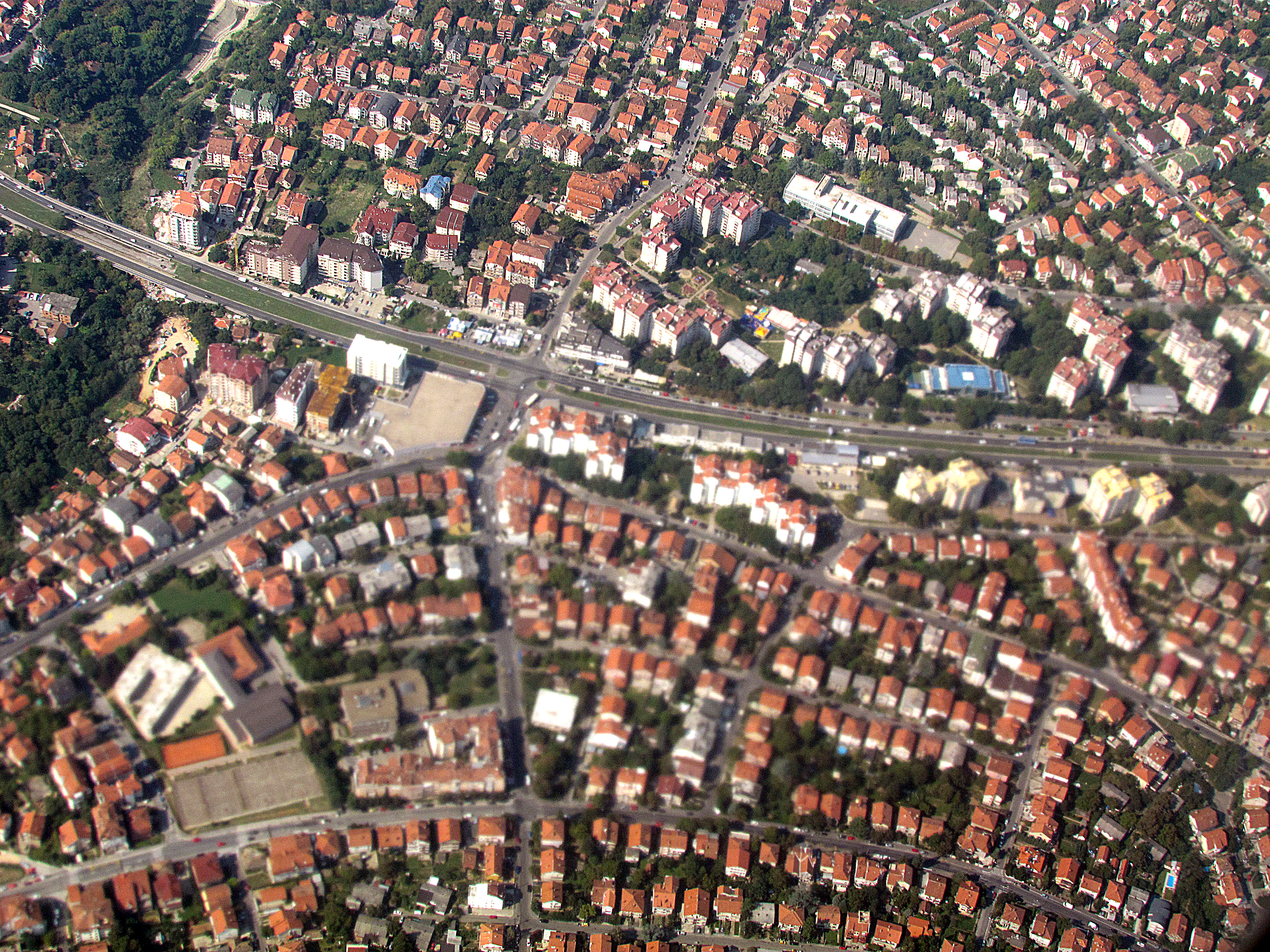 Zarkovo - suburb of Belgrade City